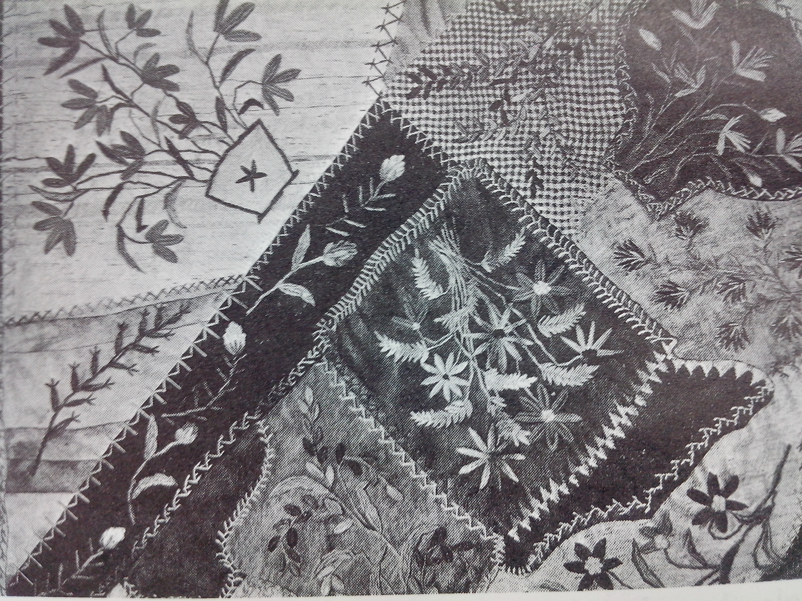 Patchwork quilt